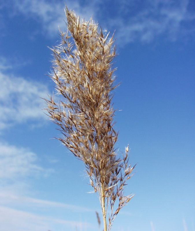 Phragmites at Lake Neusiedl, Hungary